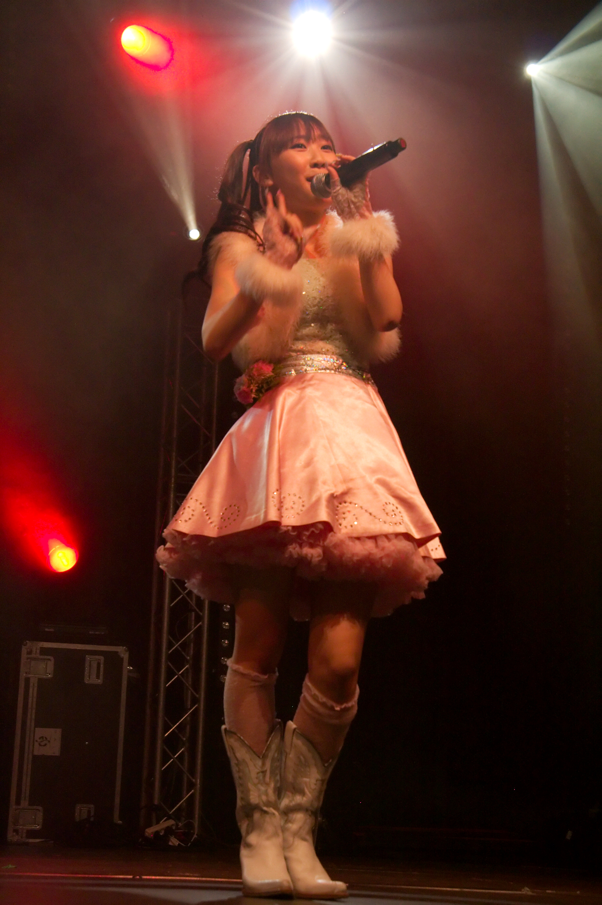 AKB48 live at Japan Expo 2009 (Paris, France).